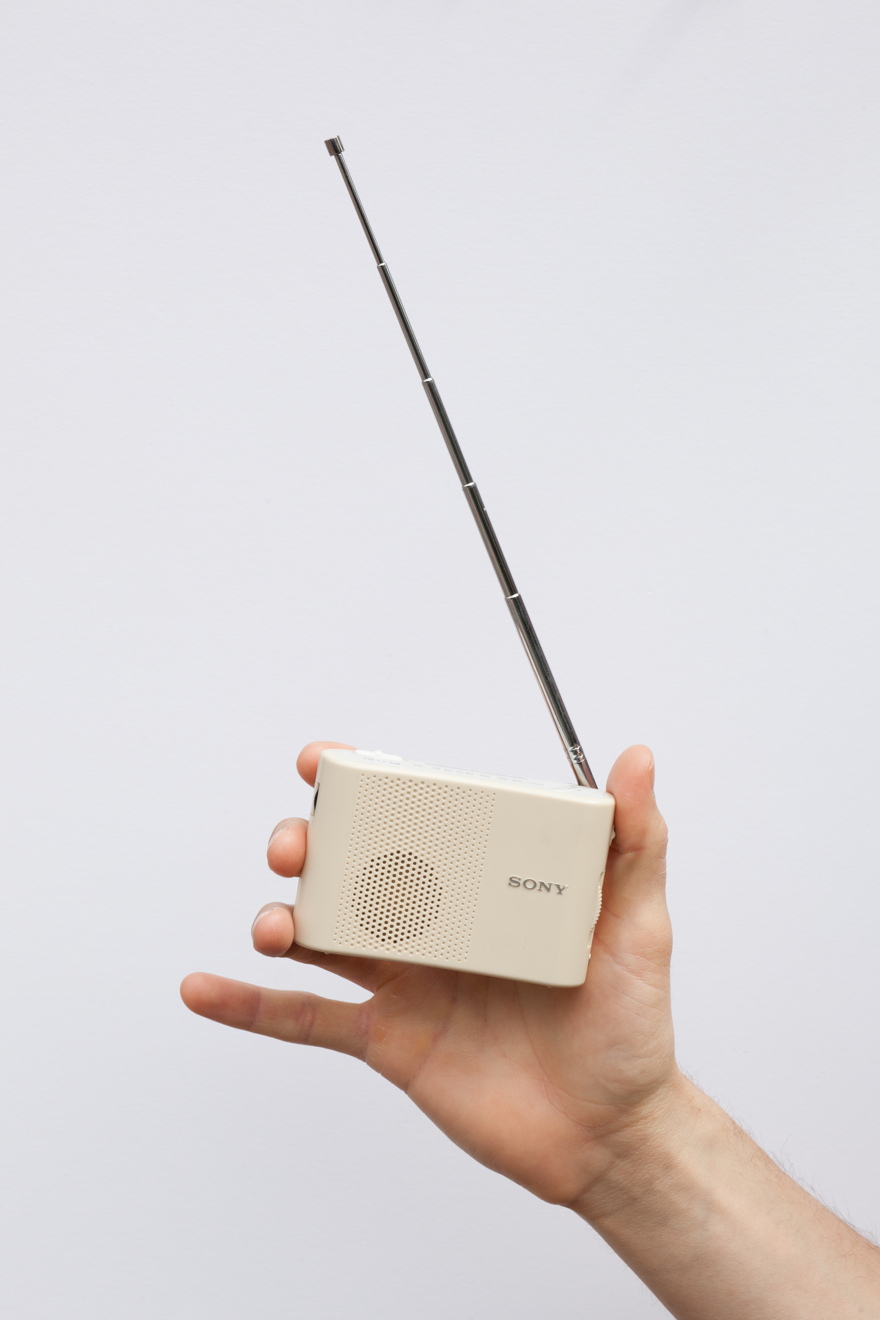 Sony pocket fm radio